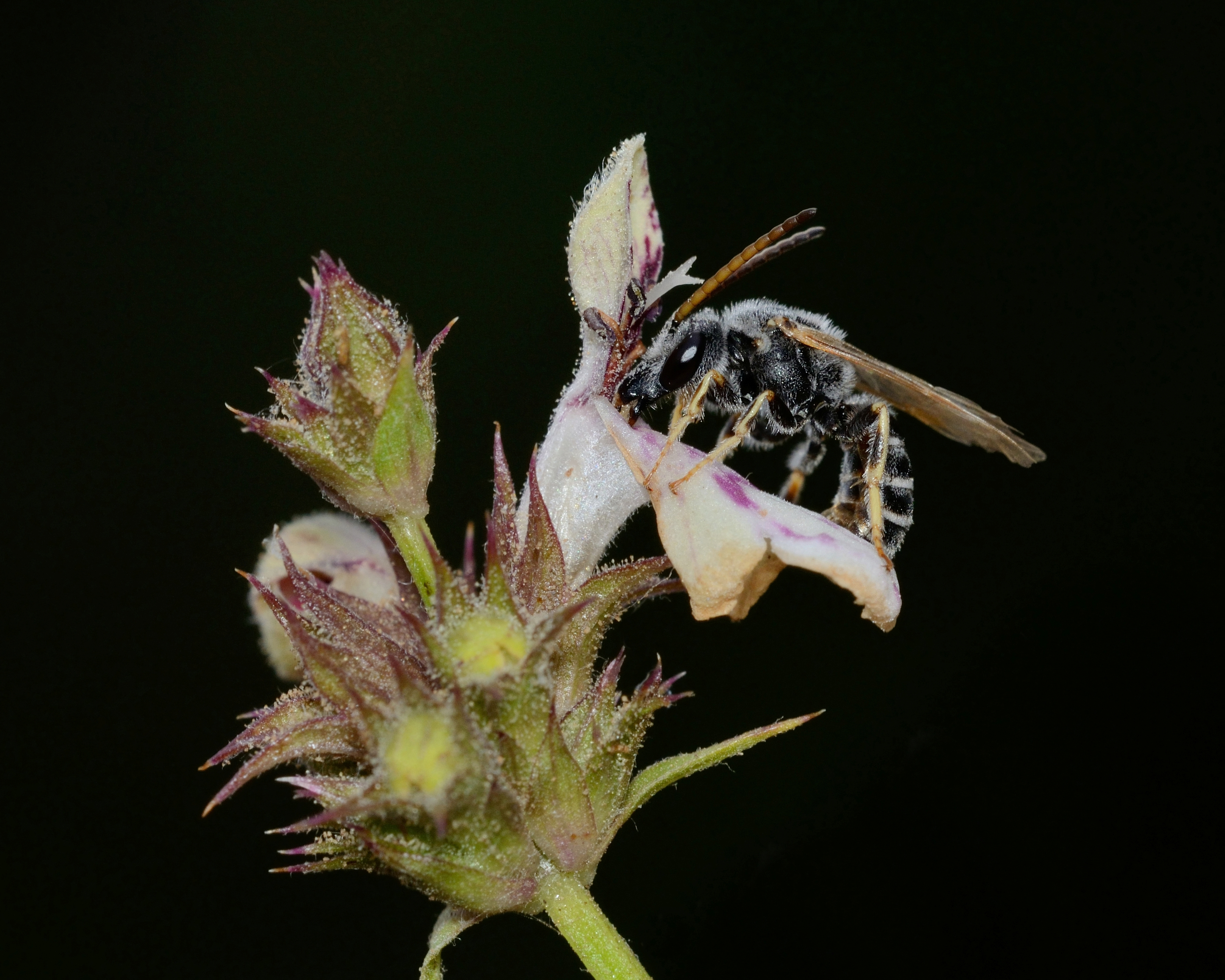 Thrincohalictus prognathus (Pérez, 1912), male foraging on Stachys distans, Mount Meron, Upper Galilee, Israel, June 3, 2014.